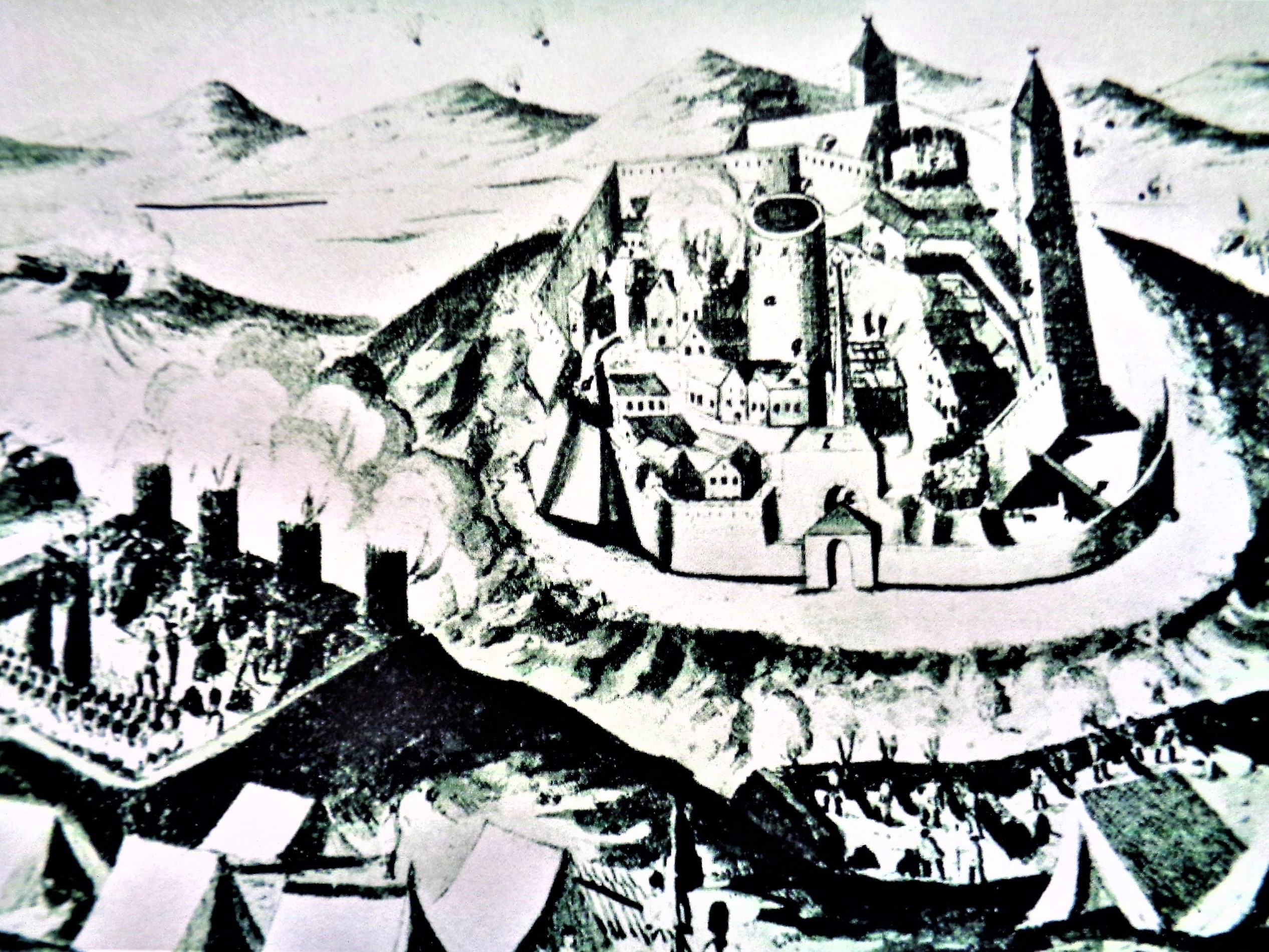 Siege of Cetingrad, Croatia (1790) - castle freed from the Ottoman occupation